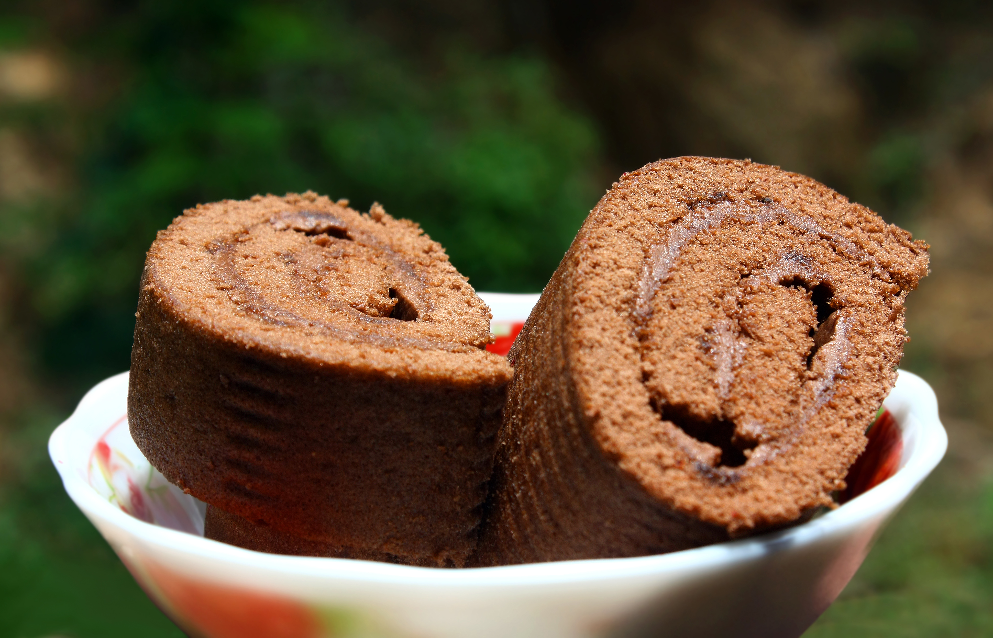 Sri Lankan Swiss roll, simply known as roll cake